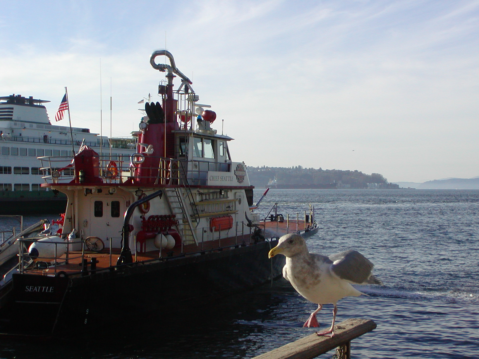 Fireboat Chief Seattle and seagull on Seattle Central Waterfront. Washington State Ferry in middle ground. Looking across Elliott Bay to West Seattle in background.